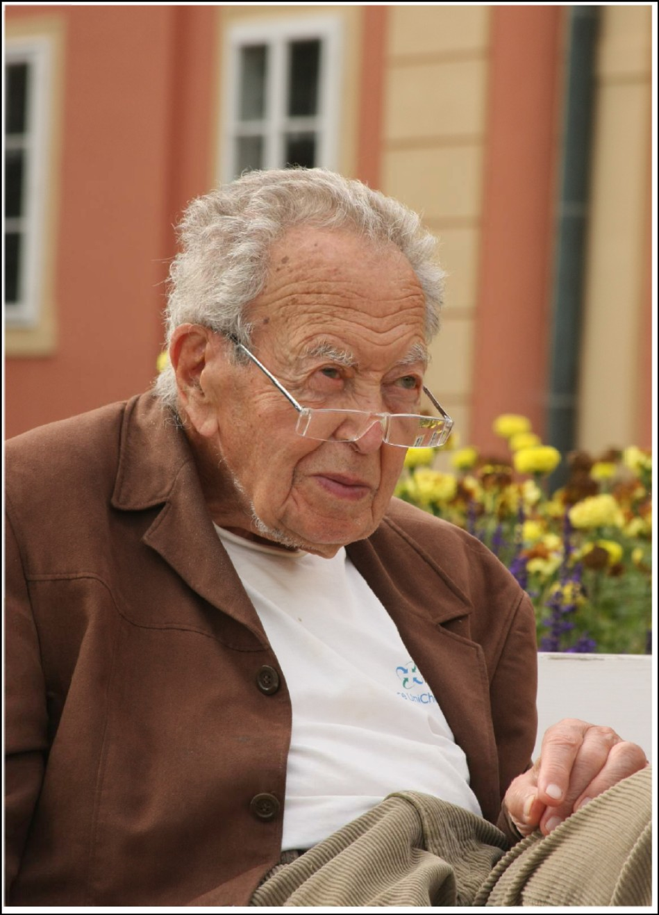 Professor Karel Lewit (1916 - 2014) neurologist - the founder of modern functional diagnosis and treatment of vertebrogen disease. Founder of vertebral manual therapy, reflexology and myoskelt-medicine in the former Czechoslovakia.